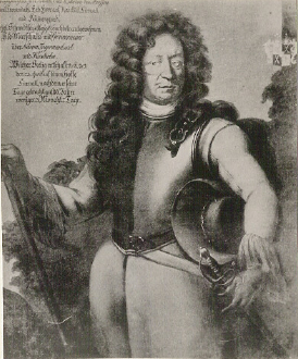 Portrait of Swedish field marshal Otto Wilhelm von Fersen (1623-1703)